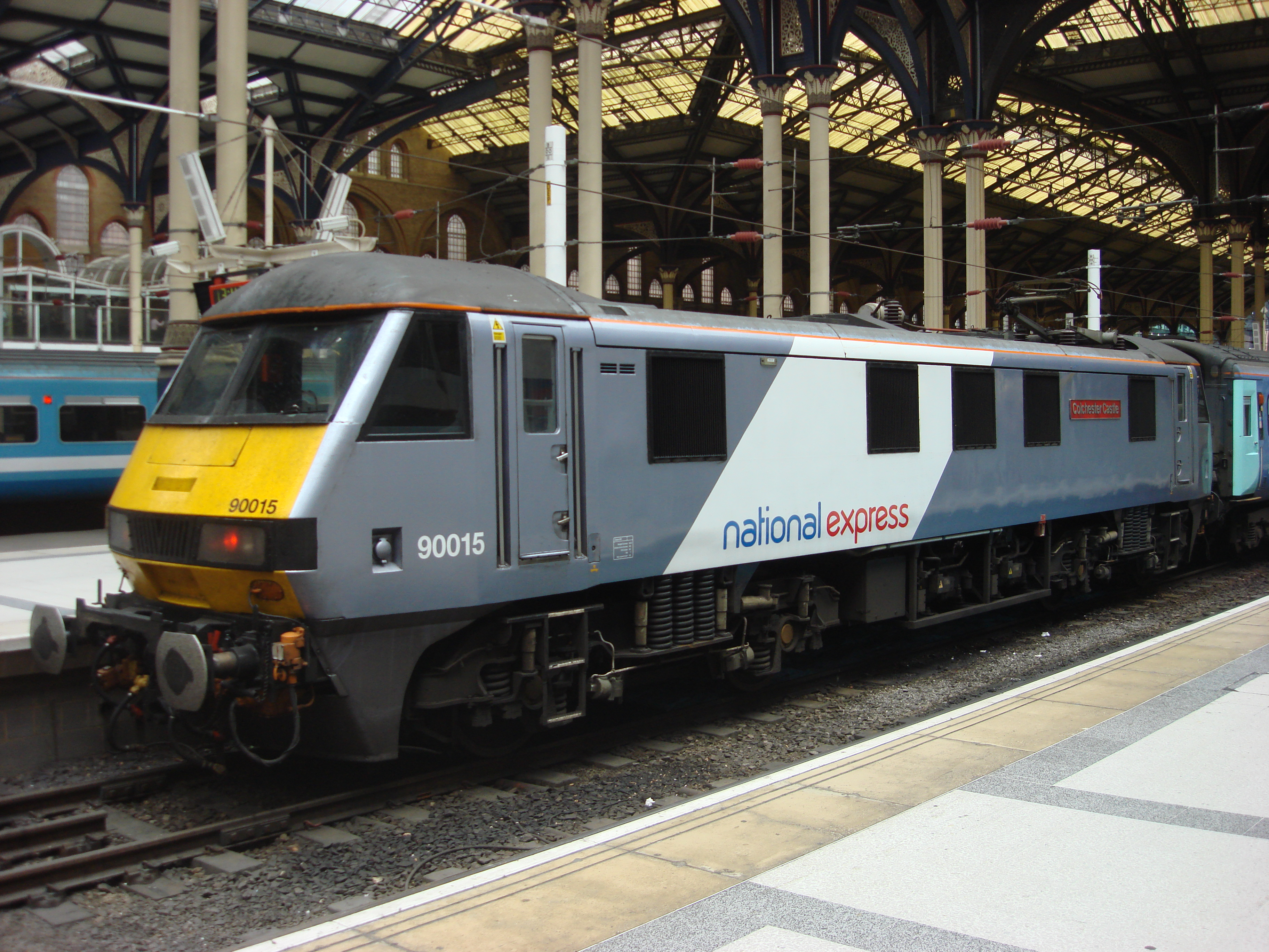 British Rail Class 90 number 90015 stands at London Liverpool Street. named "Colchester Castle"